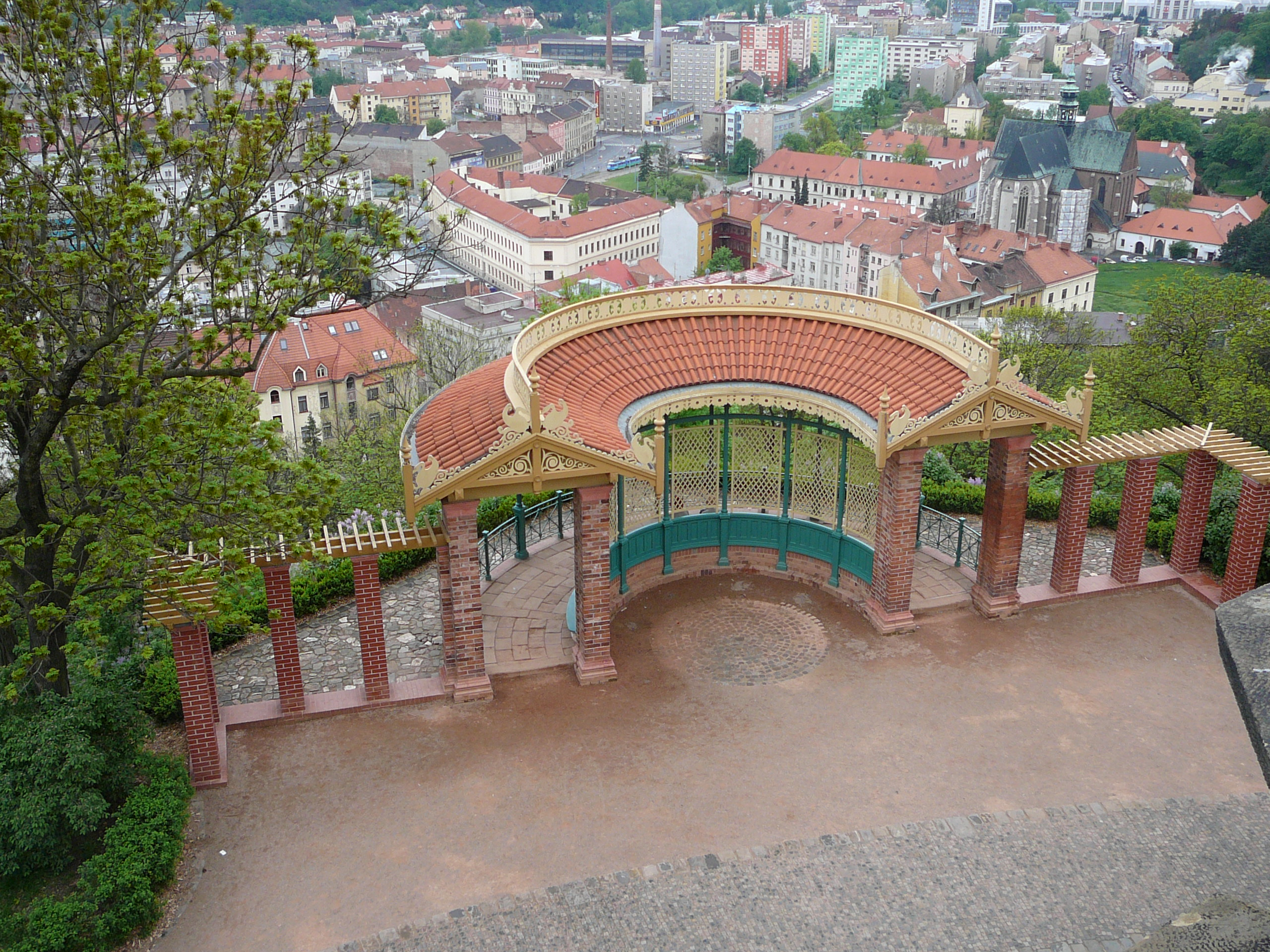 Arbour near Špilberk.